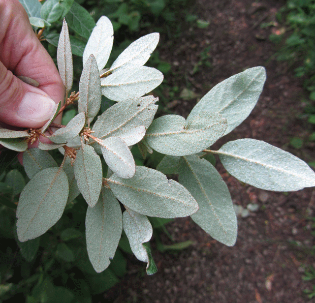 Vaccinium myrtilloides Found in Potawatomi State Park, Wisconsin, USA